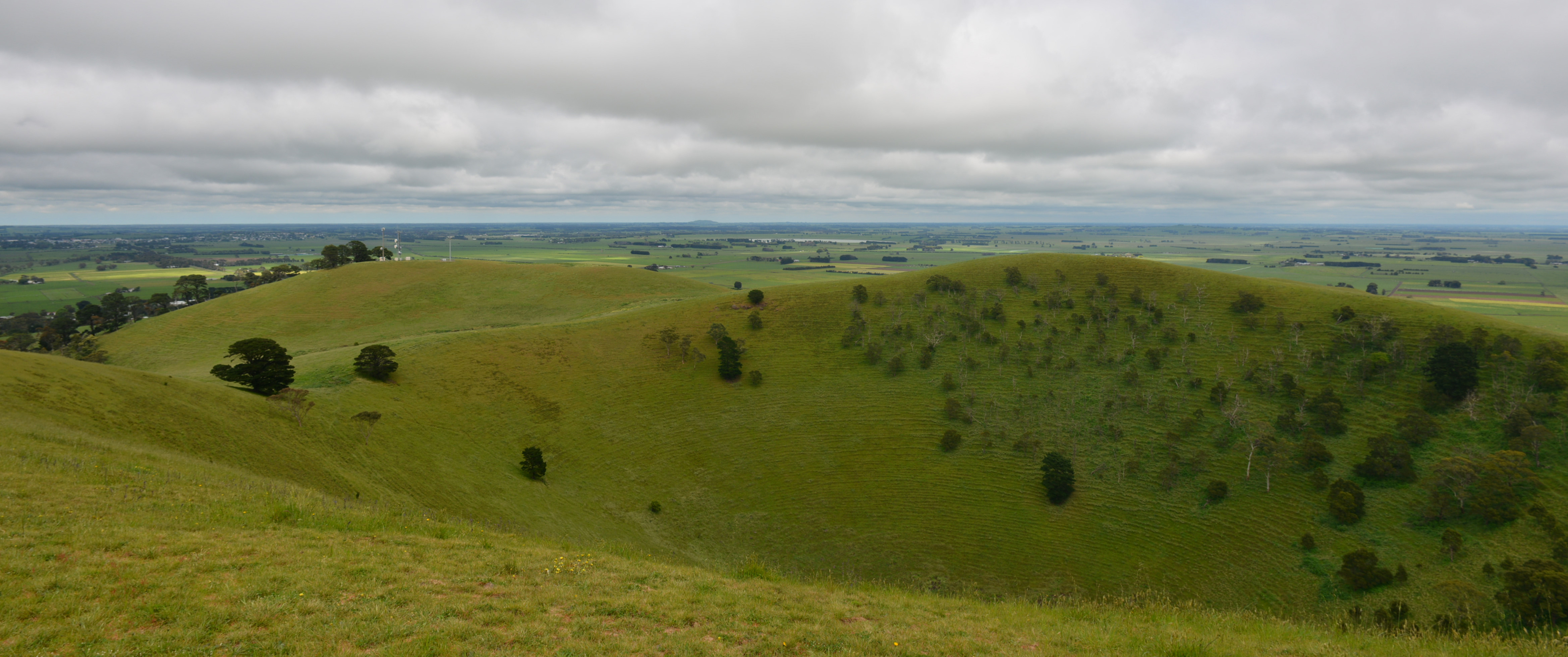 A panorama of the crater on the dormant volcano, Mount Noorat, Victoria, Australia.